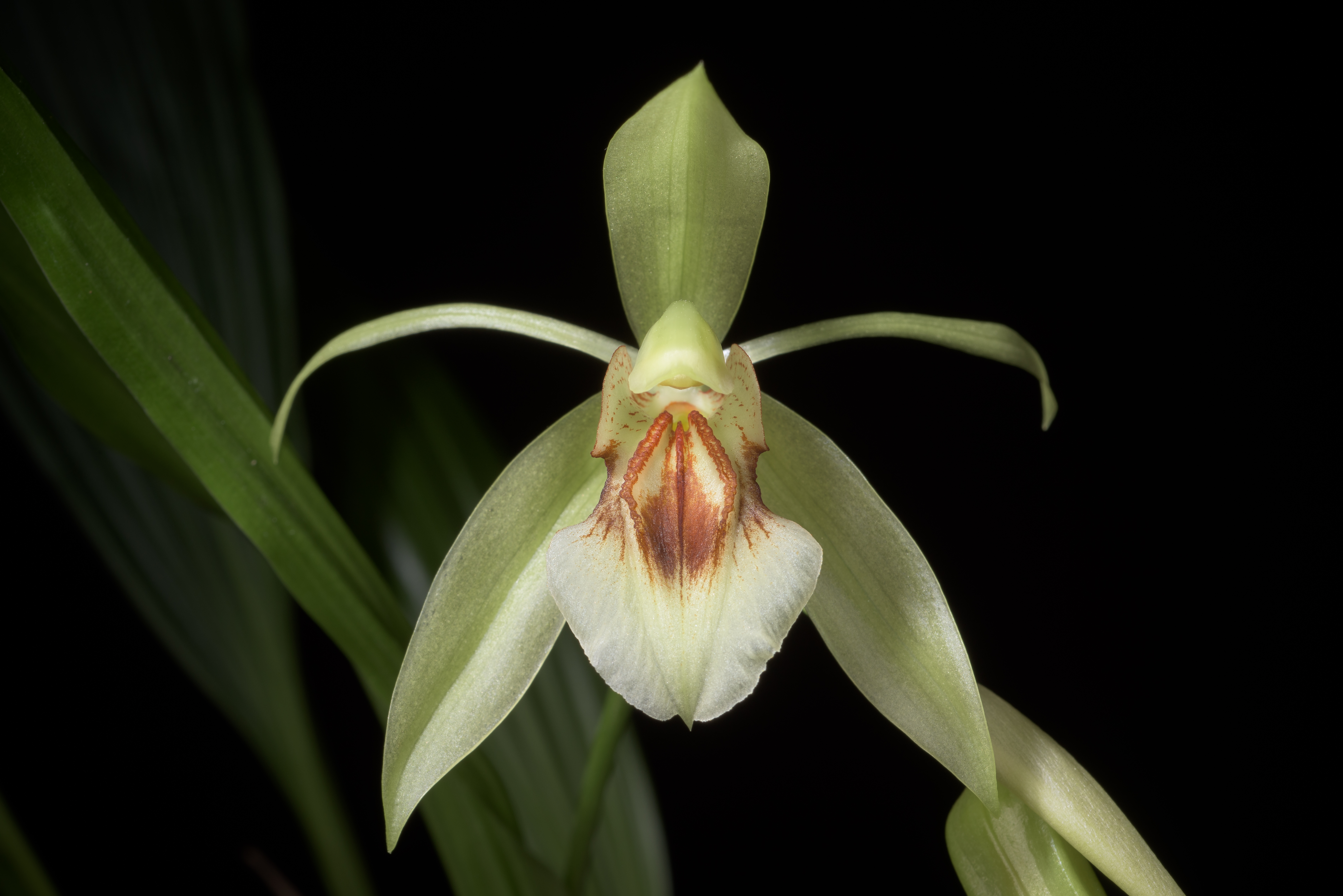 SECTION Speciosae Lindley Distribution: New Guinea 42 MOL? 43 NWG Found in Asia-Tropical Malesia Maluku (Doubtful) Papuasia New Guinea